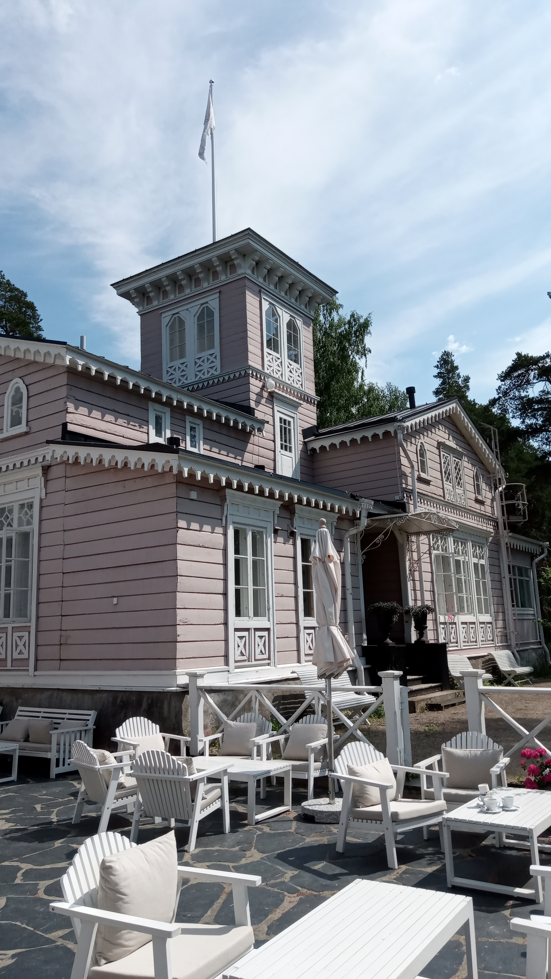 Hotel Punkaharju on 27 June 2020.